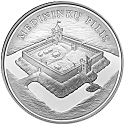 50 litas coin dedicated to the Medininkai Castle (from the series "Historical and Architectural Monuments of Lithuania") Silver Ag 925 Quality proof Diameter 38.61 mm Weight 28.28 g The words on the edge of the coin: ISTORIJOS IR ARCHITEKTUROS PAMINKLAI (HISTORICAL AND ARCHITECTURAL MONUMENTS) Designed by Giedrius Paulauskis Mintage 2,500 pcs Issue 2006 The coin was minted at the UAB Lithuanian Mint.